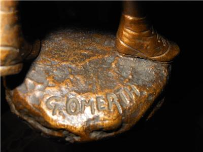 Georges Omerth signature